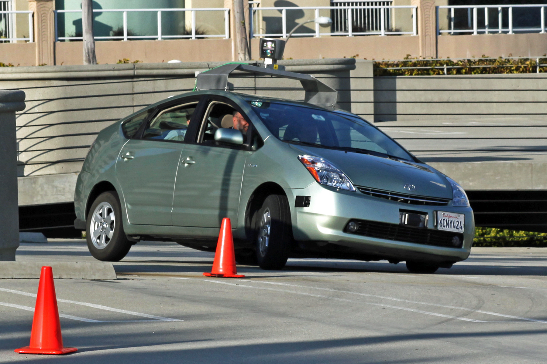 Google driverless car operating on a testing path